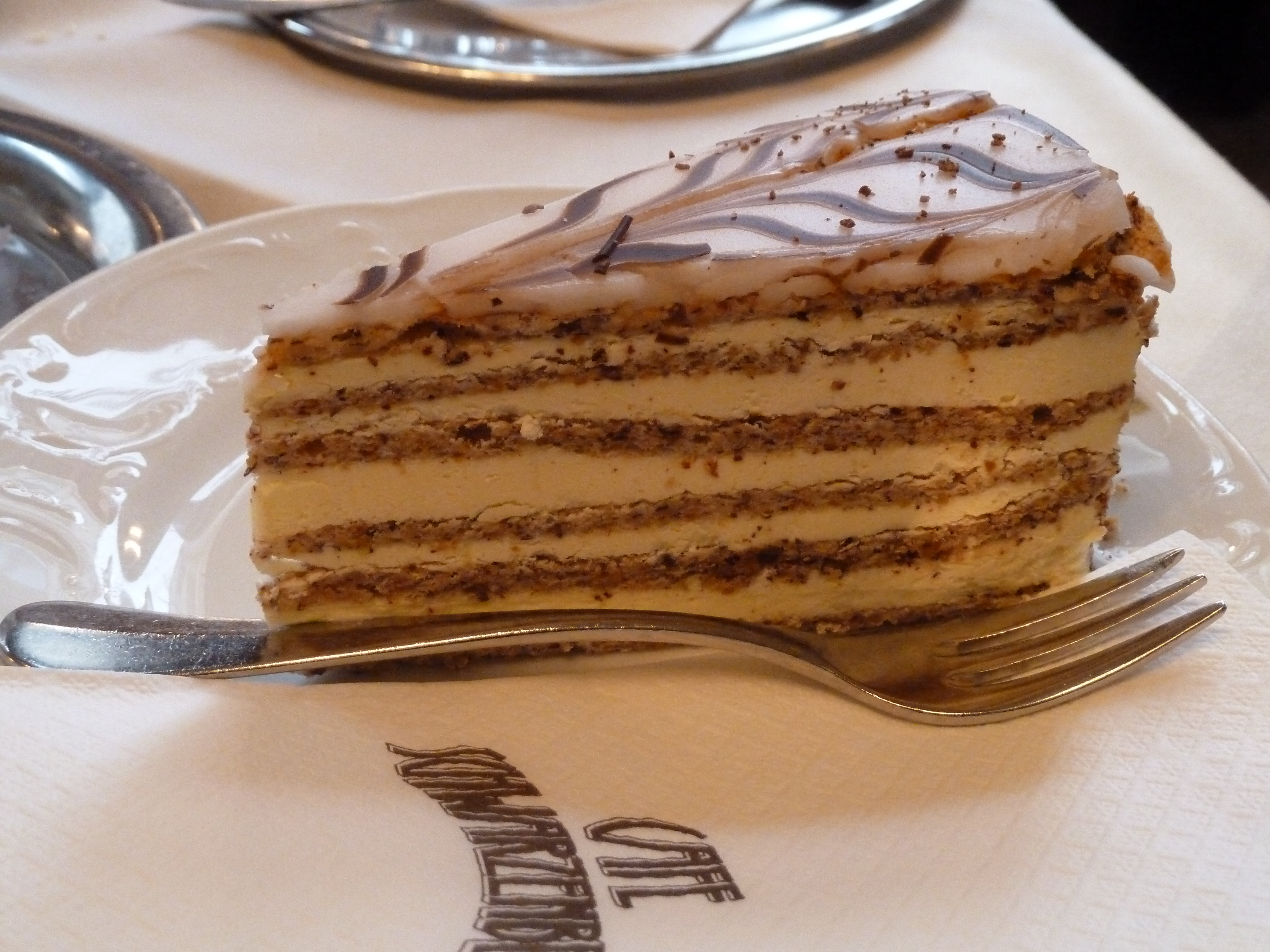 Café Schwarzenberg in Vienna, Austria